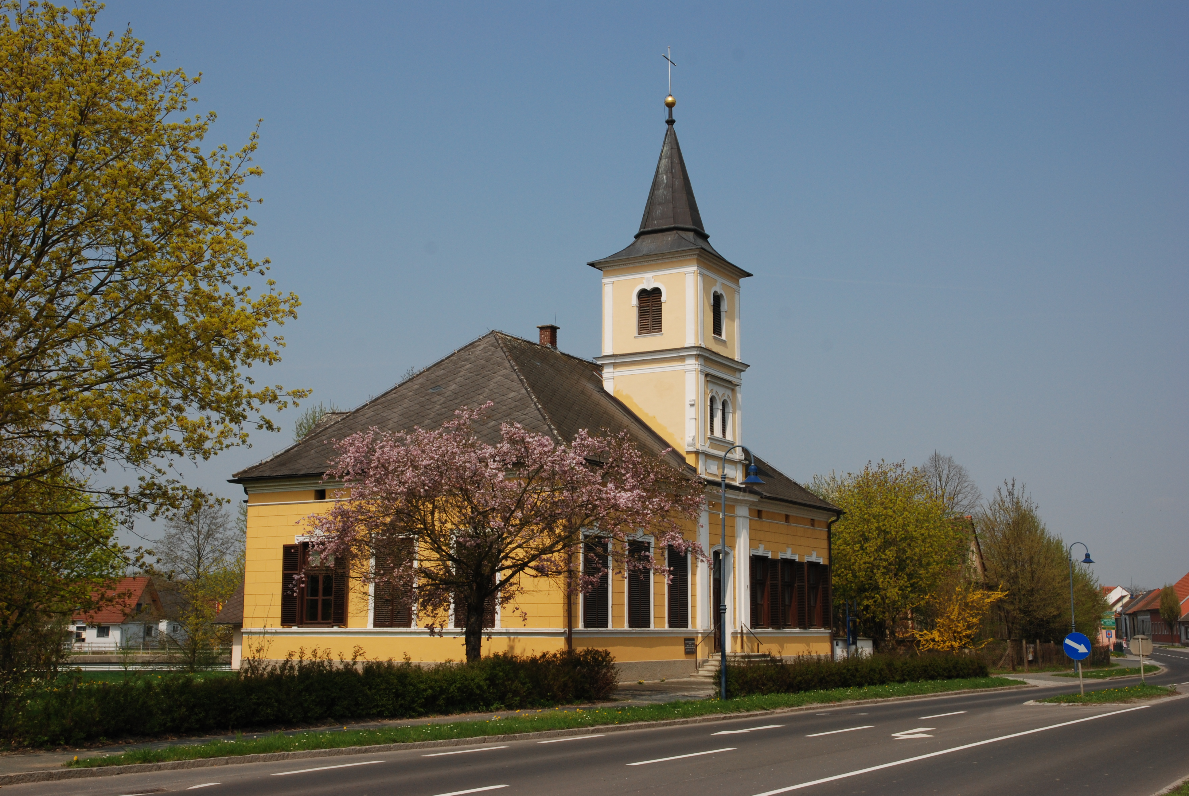 Bethaus Rudersdorf